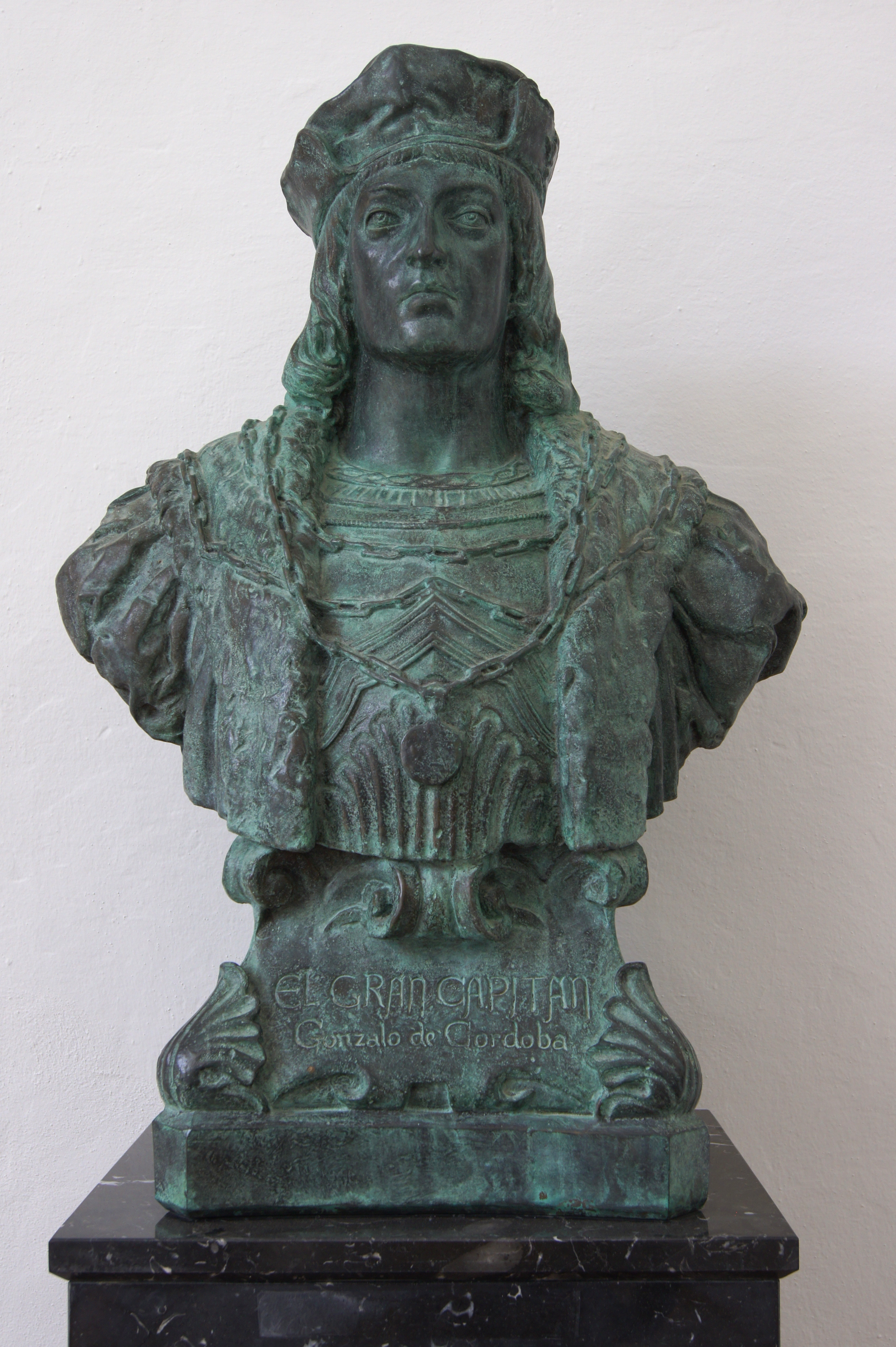 Bust of Spanish military officer Gonzalo Fernández de Córdoba (1453–1515), nicknamed el Gran Capitán ("the Great Captain") due to his victories in Italy against the French.